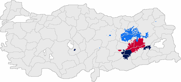 Areas where Northern Zazaki dialect is spoken, has been corrected according to my own (and precise) research. Zazaki does not represent as large an area of Tunceli province as shown in the previous version of the map.